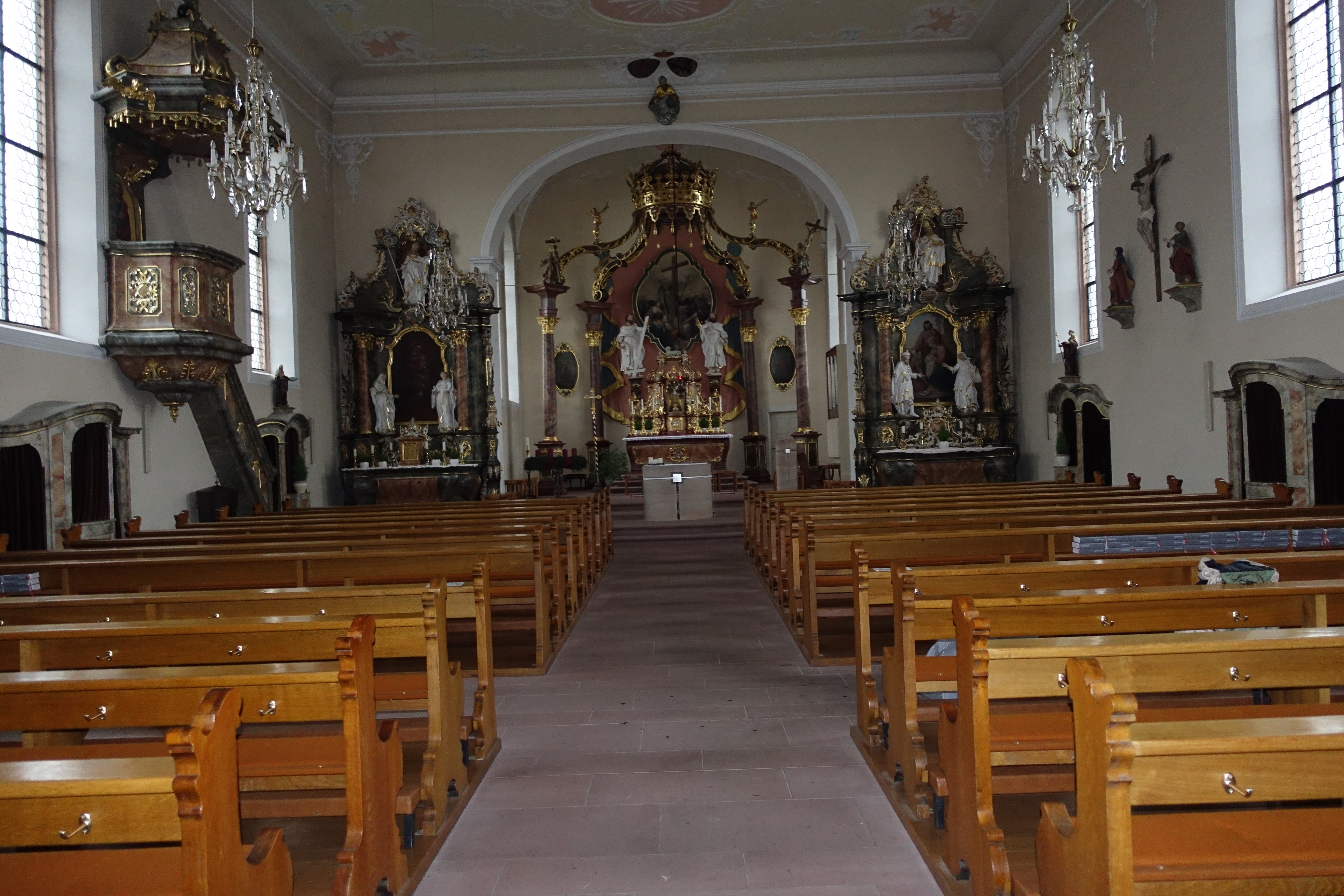 Kreuzerhöhung church in Steinach (Ortenaukreis), interior to east